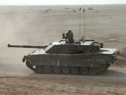 Carro armato ariete, italian army